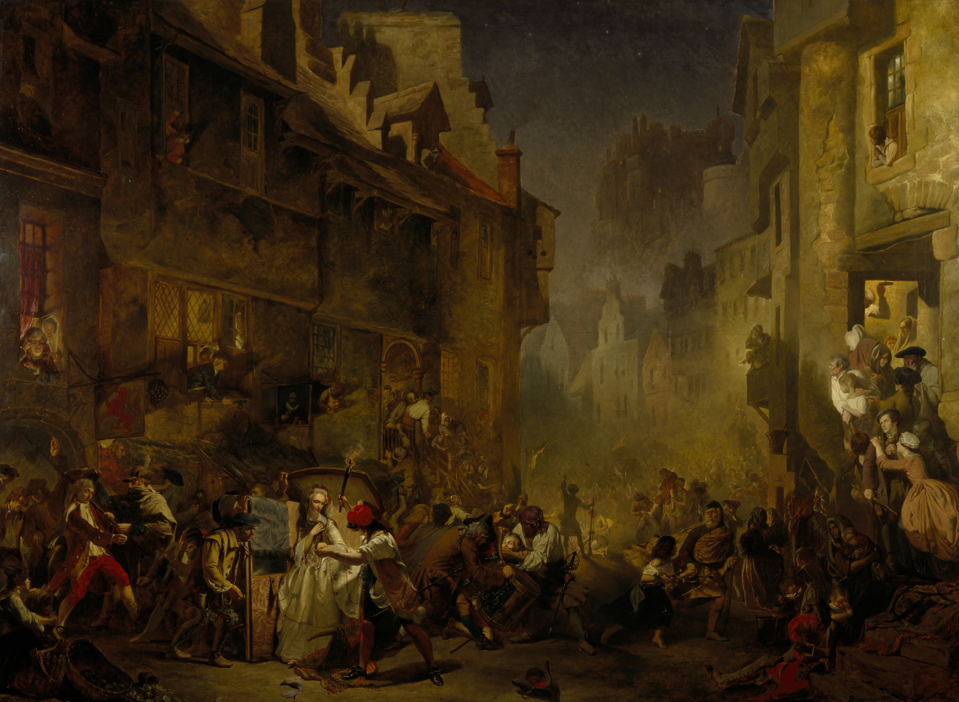 The Porteous Mob